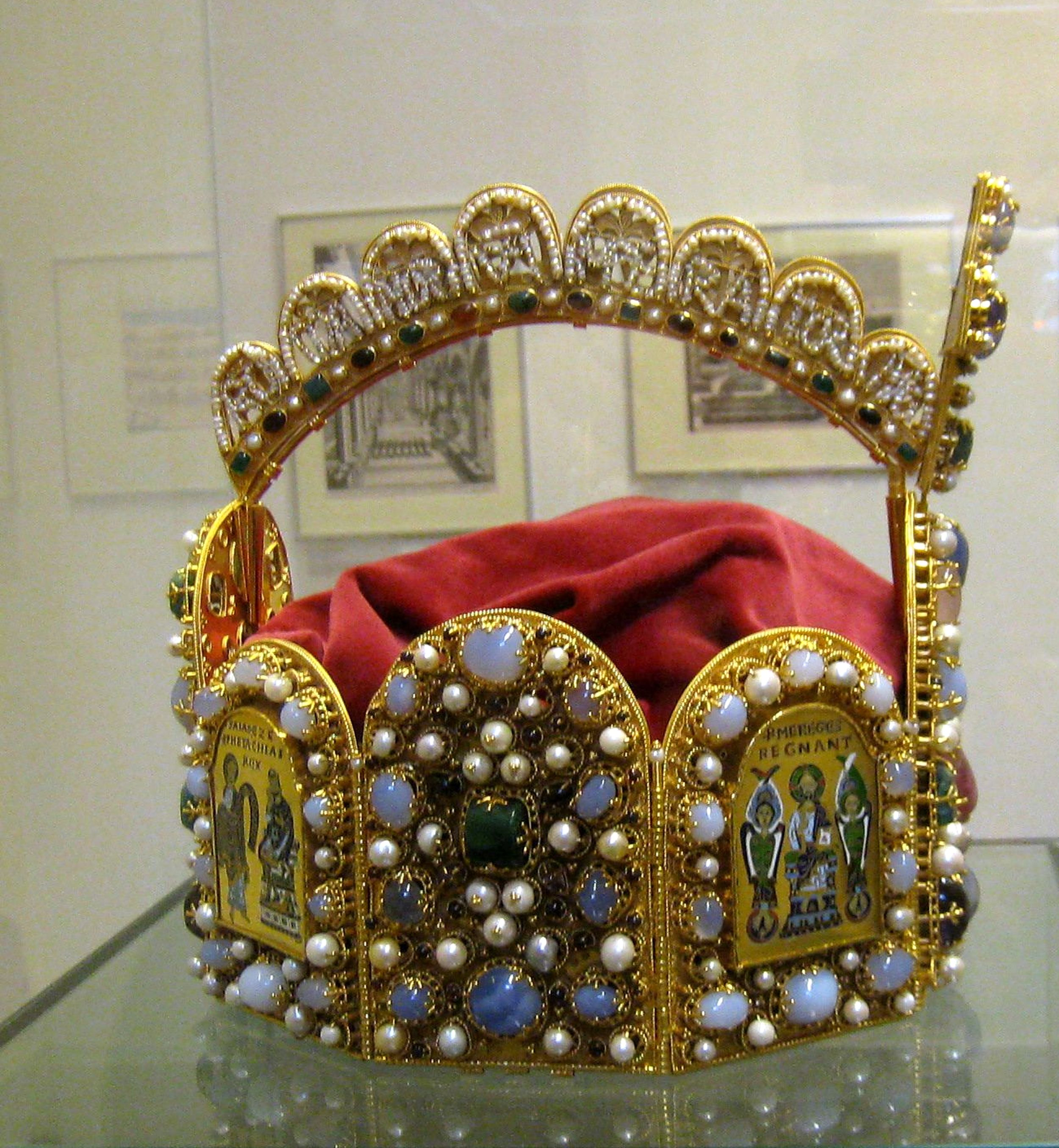 The Imperial Crown, la corona Imperial, Reichs Krone